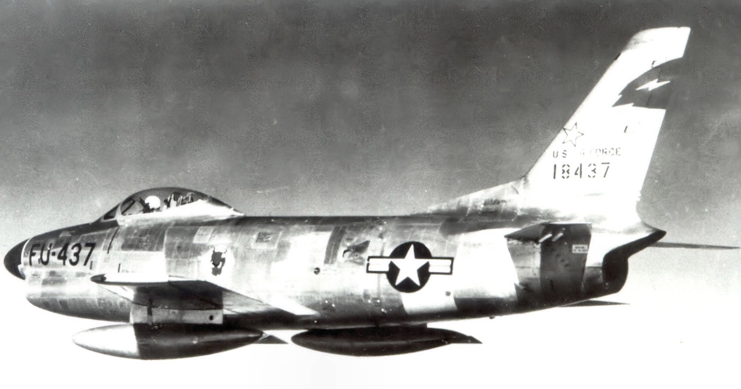 13th Fighter-Interceptor Squadron North American F-86D-35-NA Sabre 51-8437 575th Air Defense Group Selfridge AFB, Michigan December 1953